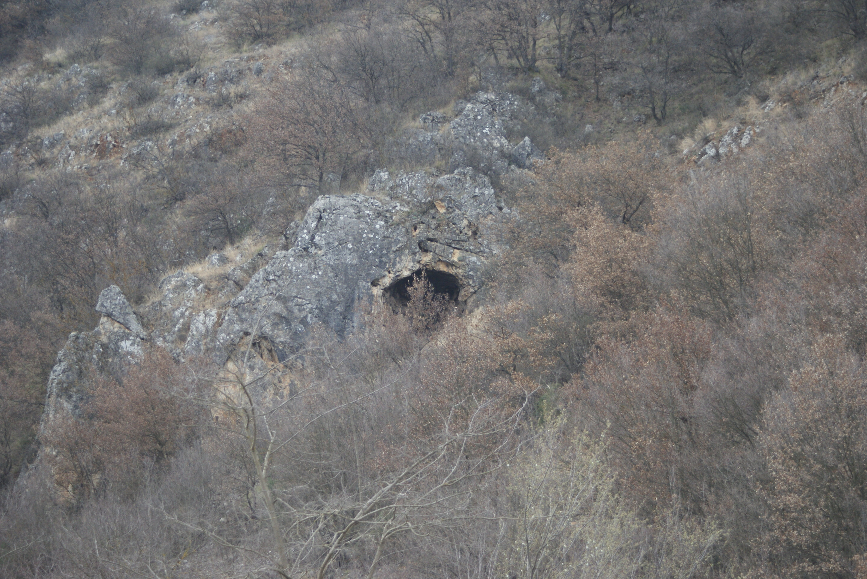 Vlashnja